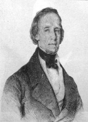 Matija Ahacel (1779-1845), Slovene book publisher and agronomist